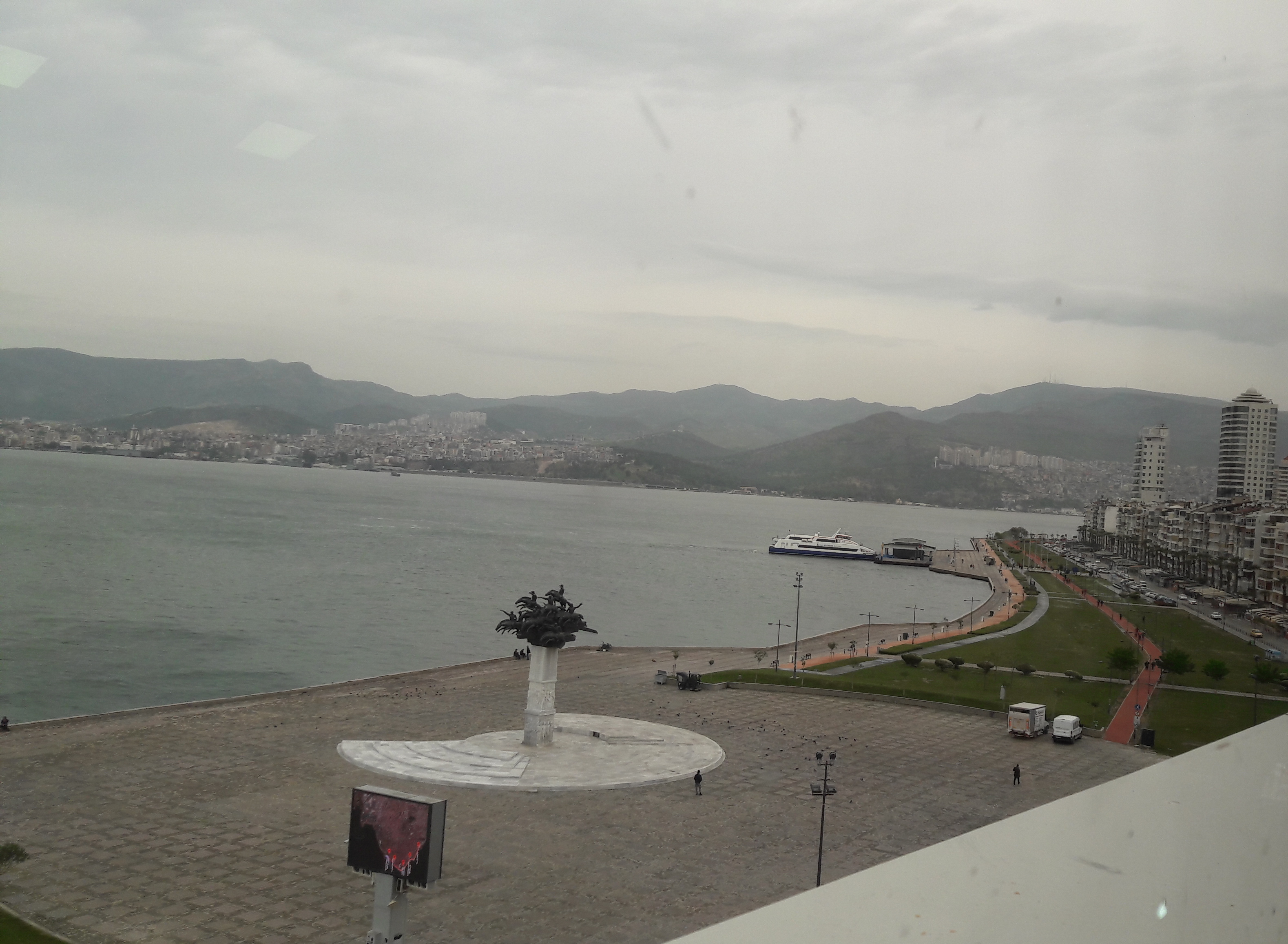 Gündogdu Square in Izmir, Turkey.